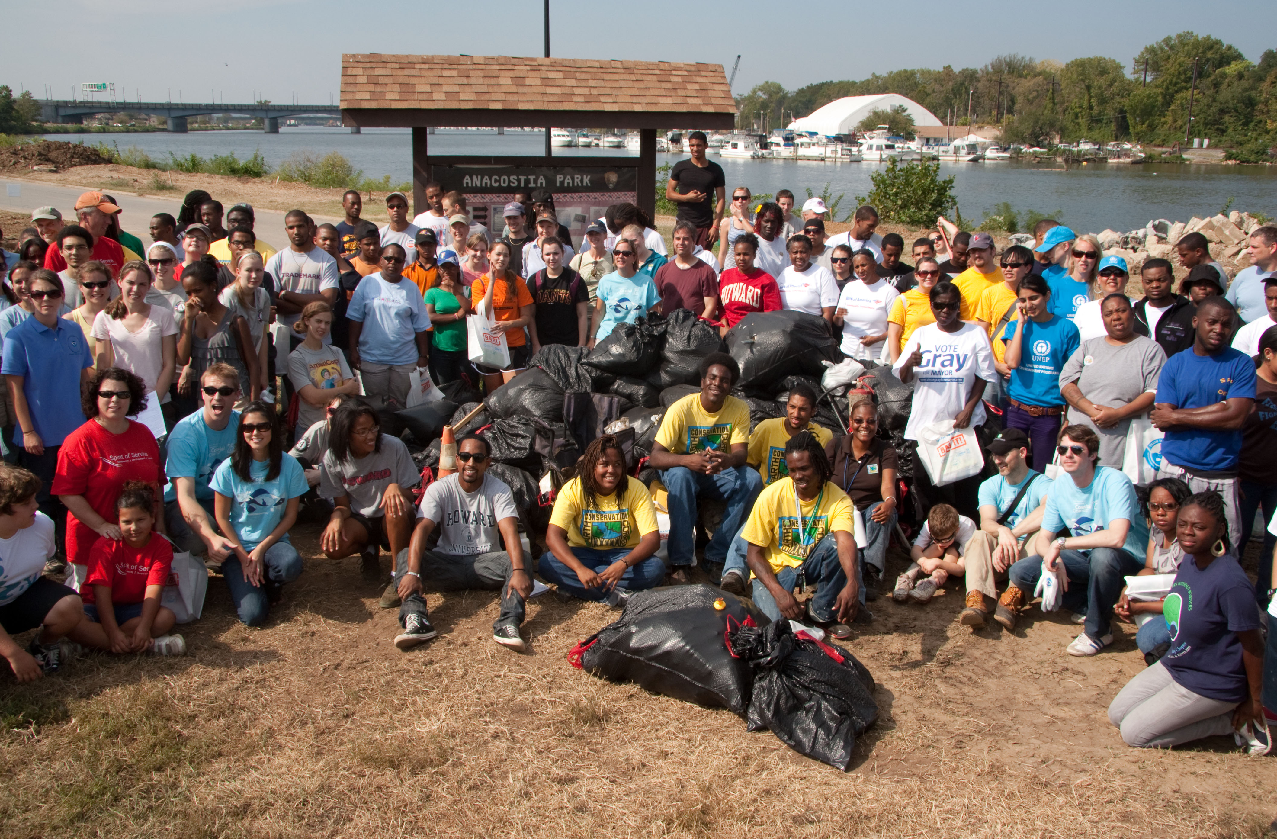 A photo of a group of volunteers who helped clean up beaches and estuaries around Anacostia Park. The Ocean Conservancy, formerly known as the Center for Marine Conservation, established and maintains the annual International Coastal Cleanup (ICC) with support from EPA and other stakeholders. The first cleanup was in 1986 in Texas, and the campaign currently involves all of the states and territories of the United States and more than 100 countries around the world. The ICC is the largest volunteer environmental data-gathering effort and associated cleanup of coastal and underwater areas in the world. It takes place every year on the third Saturday in September. In 2001, over 140,000 people across the U.S. participated in the ICCC. They removed about 3.6 million pounds of debris from more than 7,700 miles of coasts, shorelines, and underwater sites.